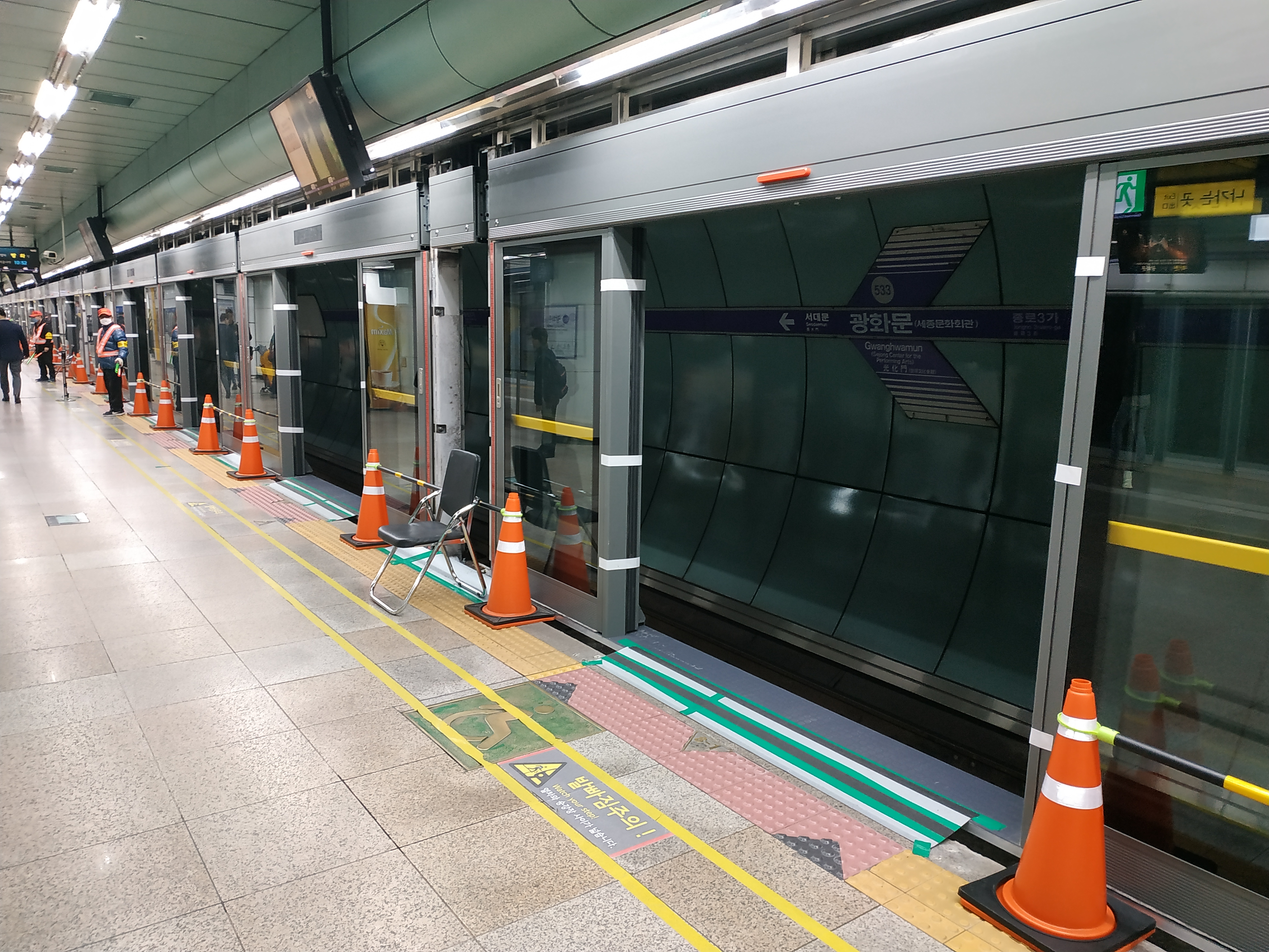 Safety screen doors being installed at Gwanghwamun Station